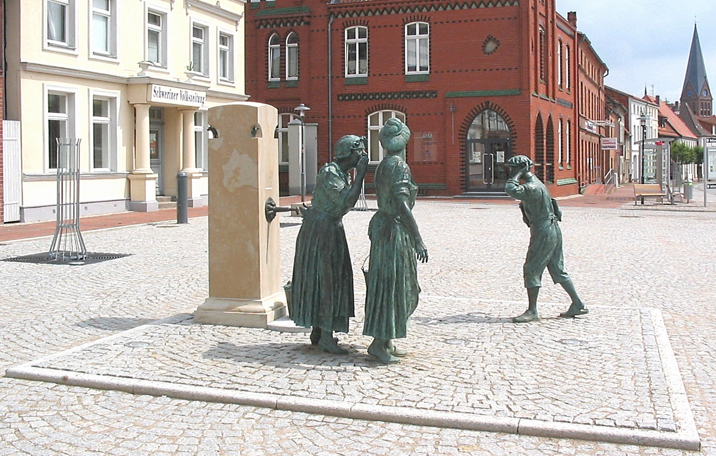 water well "Fiek'n-Brunnen" in Hagenow, district Ludwigslust-Parchim, Mecklenburg-Vorpommern, Germany